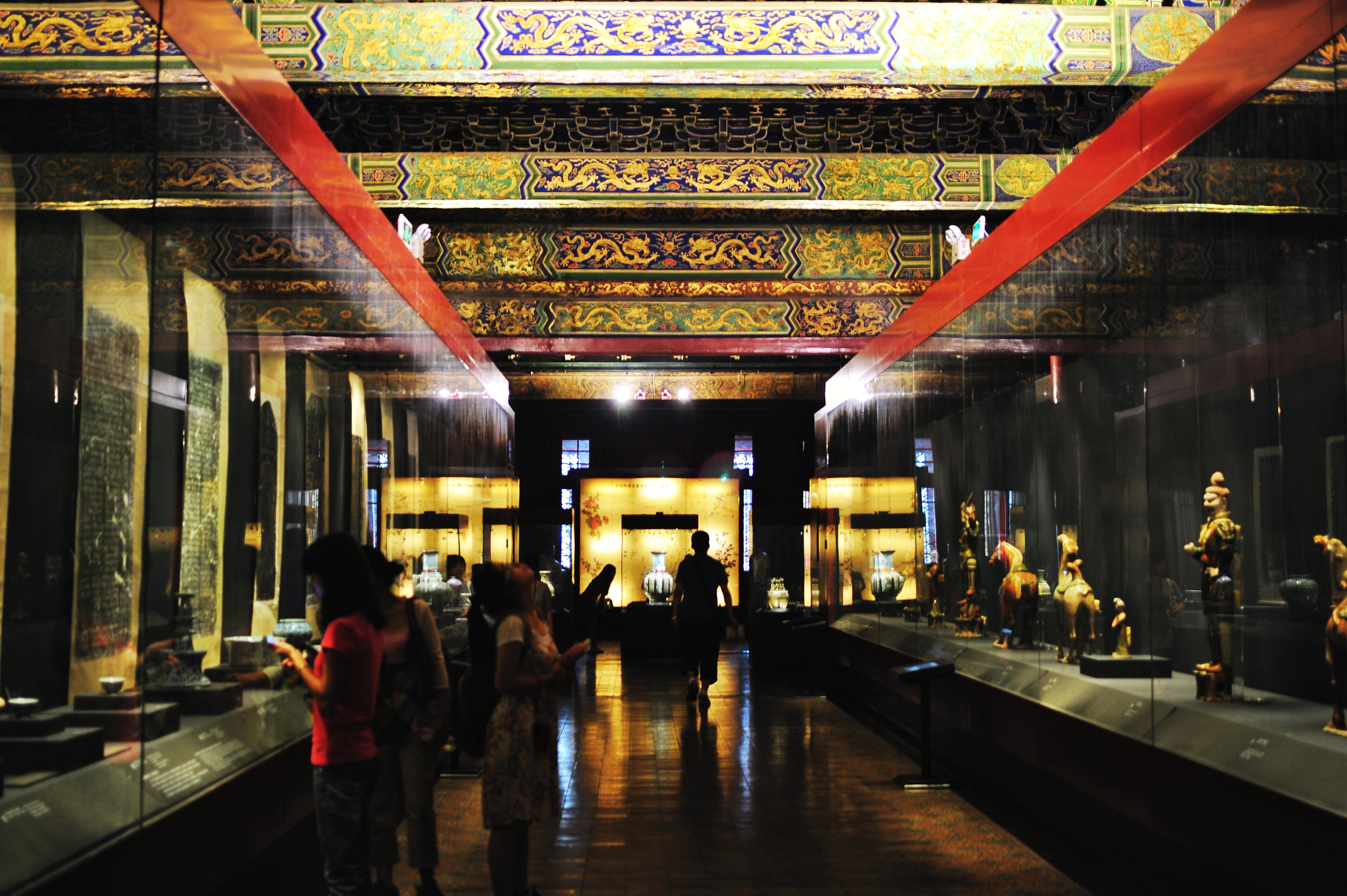 Interior of the Palace Museum (Forbidden City) in Beijing, China: corridor connecting the Hall of Literary Glory and the Hall of Main Respect; the porcelain collection housed in the Hall of Literary Glory is at the far end.